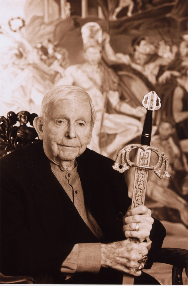 Human-rights activist Morris Kight in Los Angeles, 2002. Portrait by Henning von Berg.